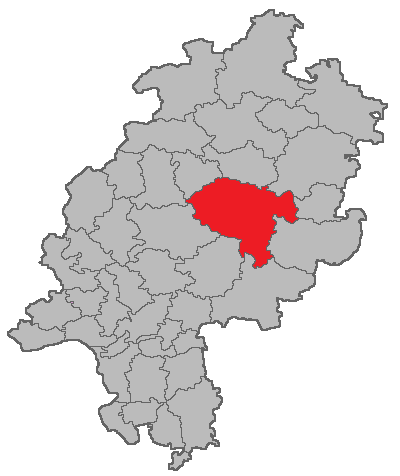 Map of the district court Alsfeld in Hesse